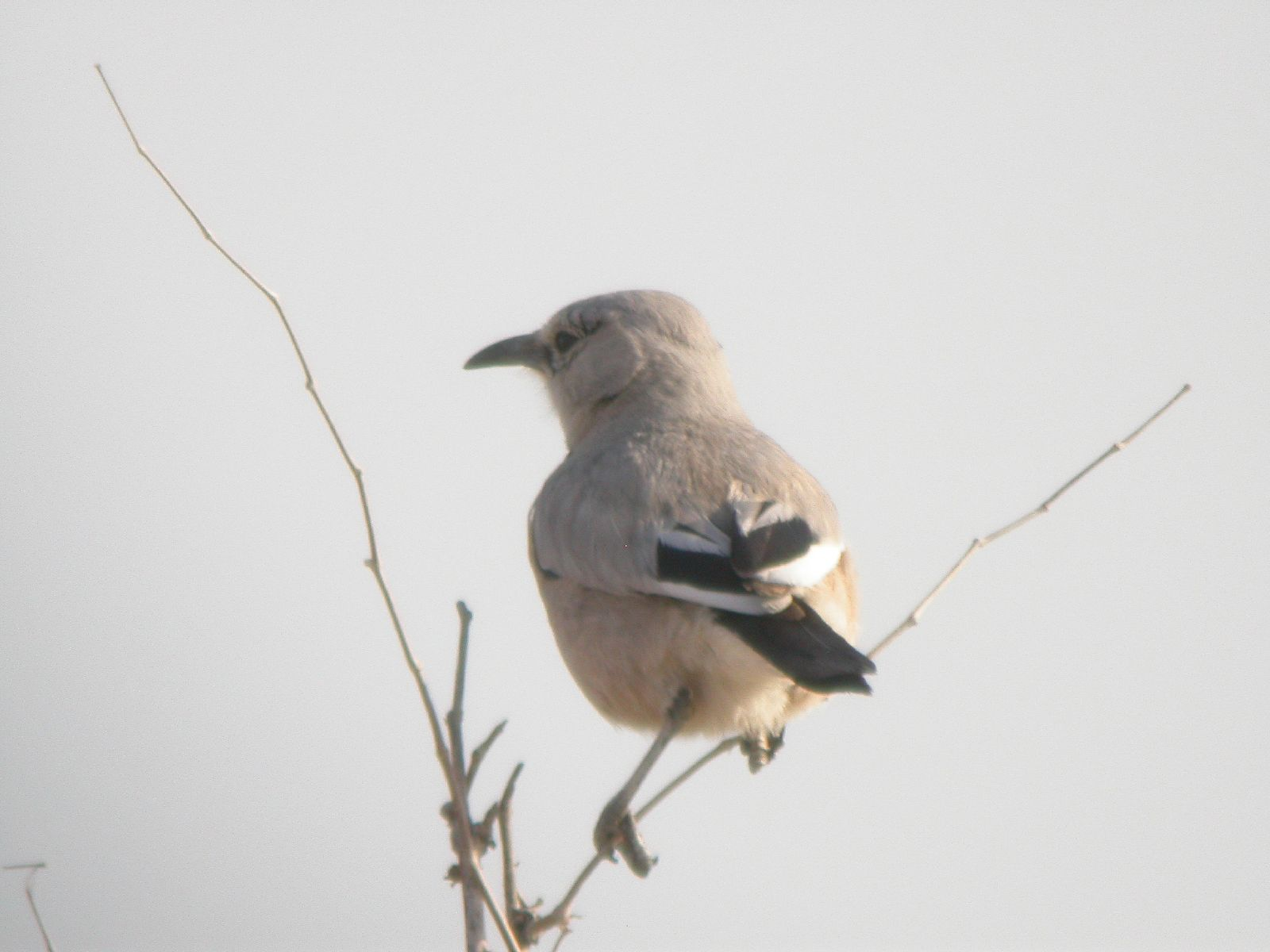 AKA Pander's Ground-Jay Podoces panderi Front view here